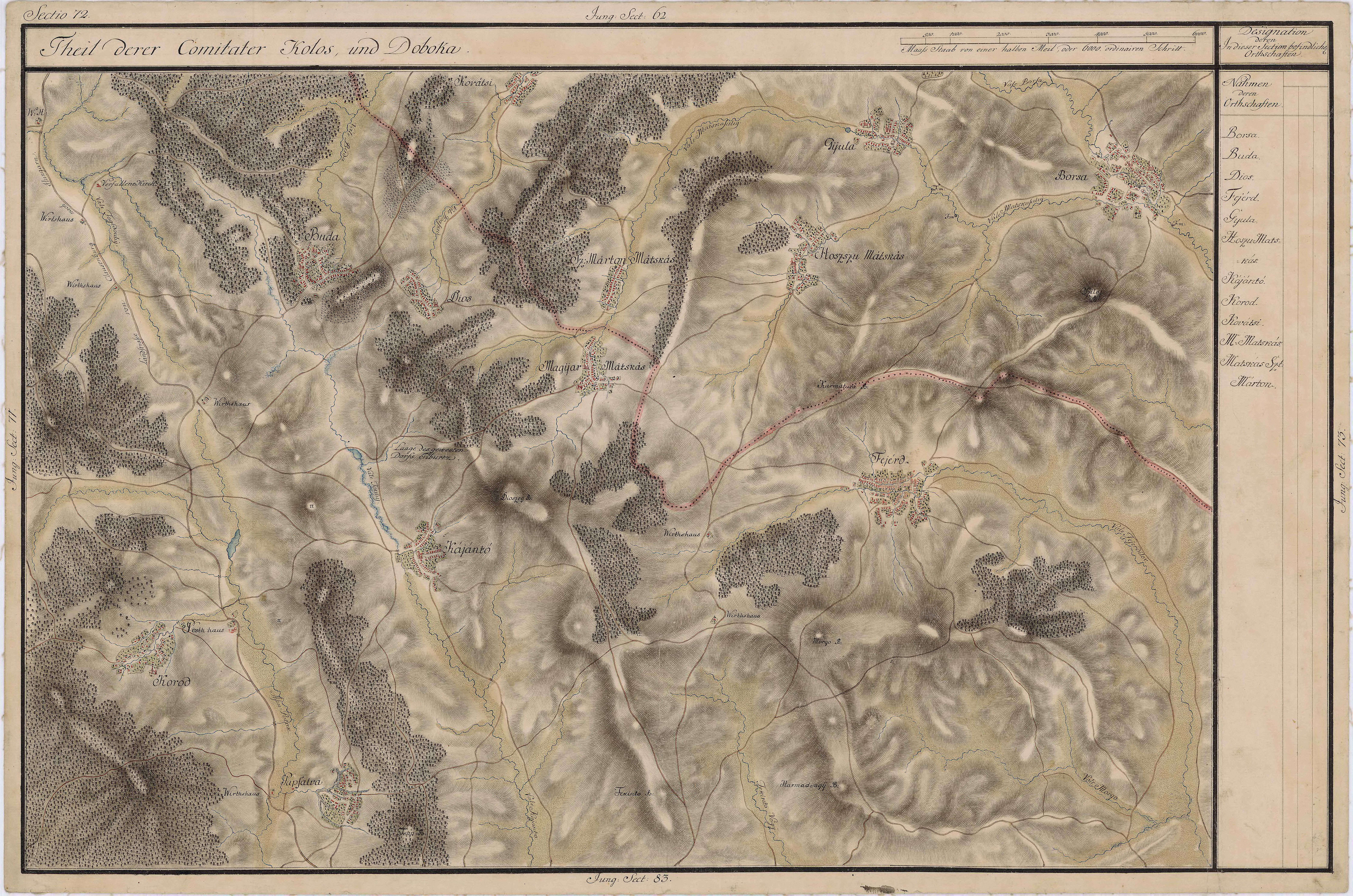 Grand Duchy of Transylvania, 1769-1773. Josephinische Landaufnahme pg.072